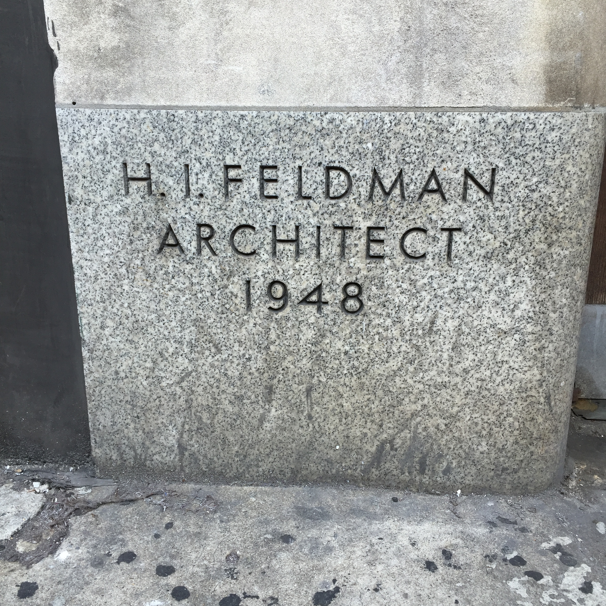 Millinery Center Synagogue, Garment Center district, New York City, Midtown Manhattan, 1025 Sixth Ave, New York, NY 10018